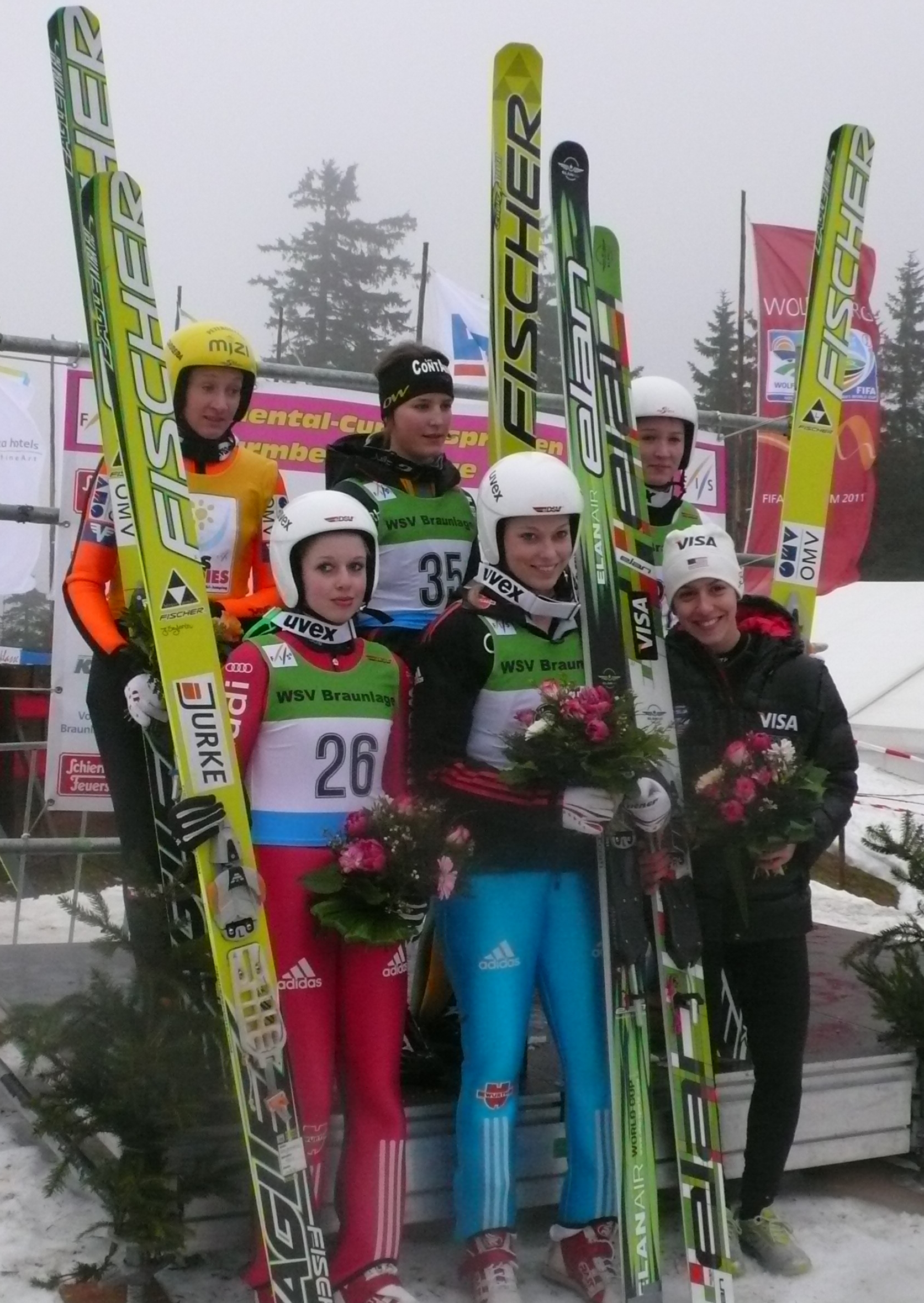 Coline Mattel 1st, Daniela Iraschko 2nd, Jacqueline Seifriedsberger 3rd place, Juliane Seyfarth 4th, Melanie Faisst 5th and Jessica Jerome 6th at the Ski jumping Continental Cup in Braunlage on the 2011-01-15.